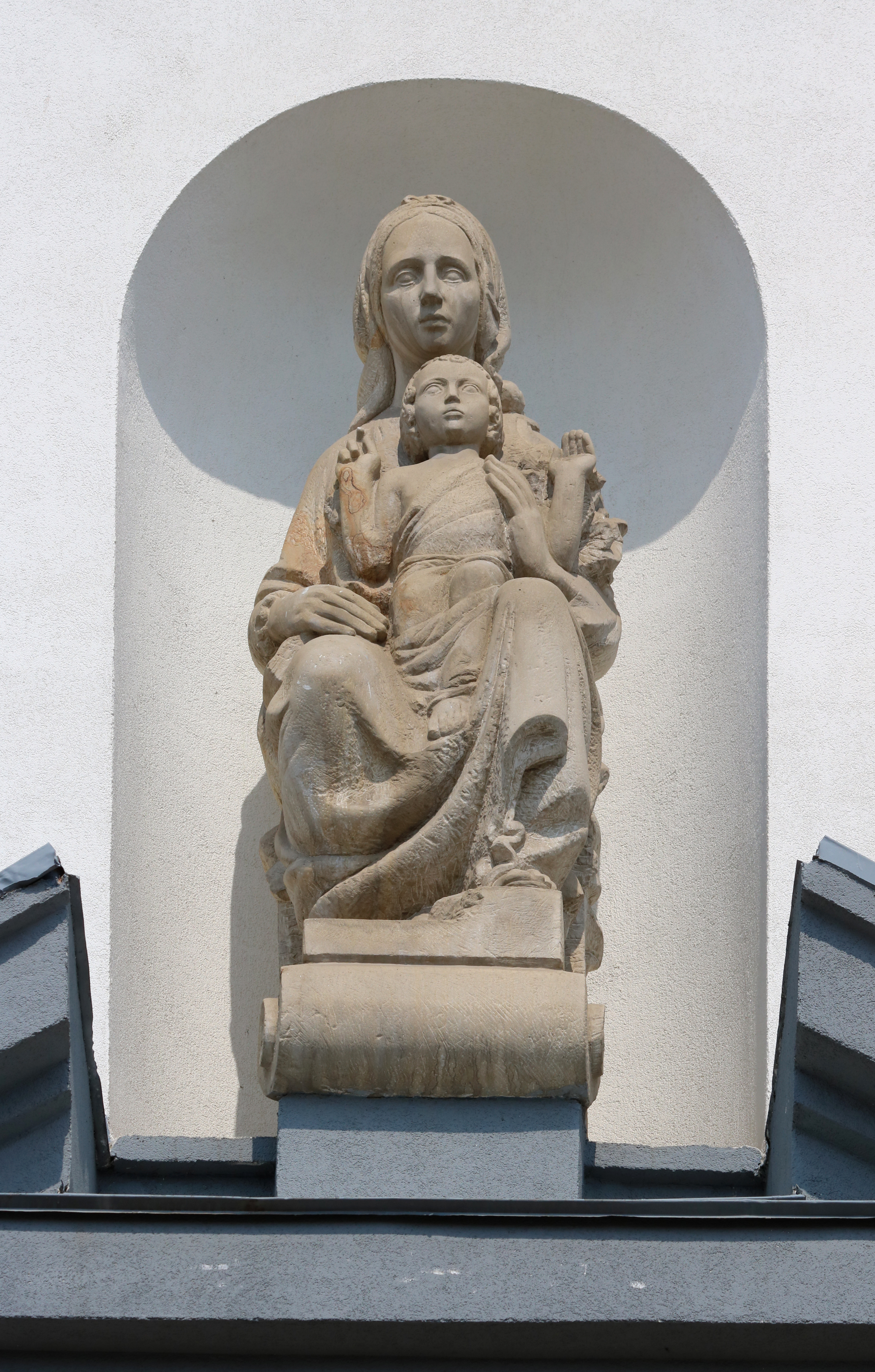 Catholic church of St. Mary of the Angels. Composition "Saint Mary" (1994) in a niche on the facade of the building. Sculptor Vladimir Smarovoz. Ukraine, Vinnytsia